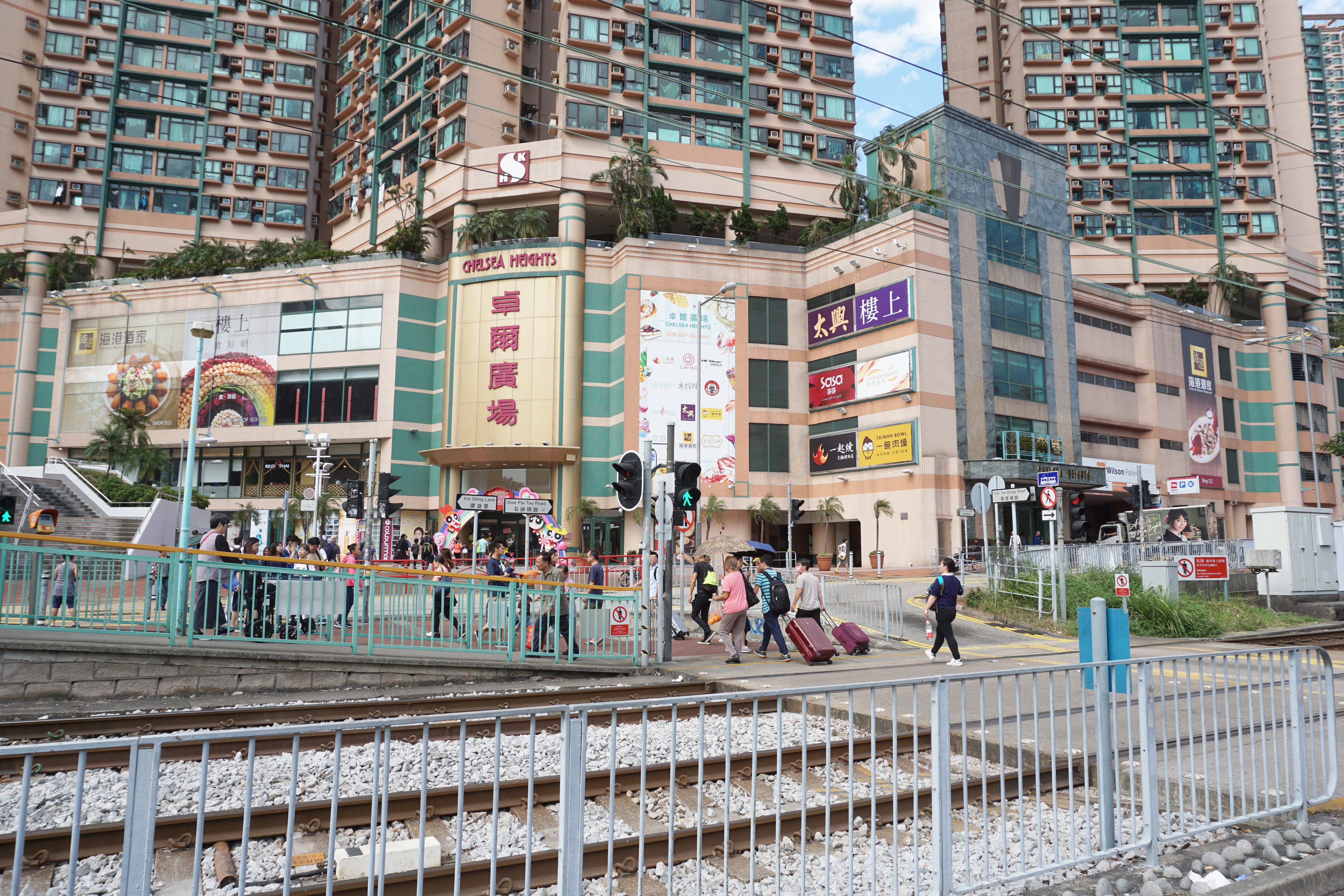 Chelsea Heights in Tuen Mun, Hong Kong.